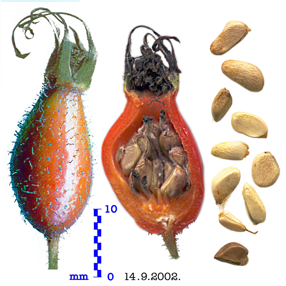 Rosa pendulina hip and achenes (Gobelja, Serbia)